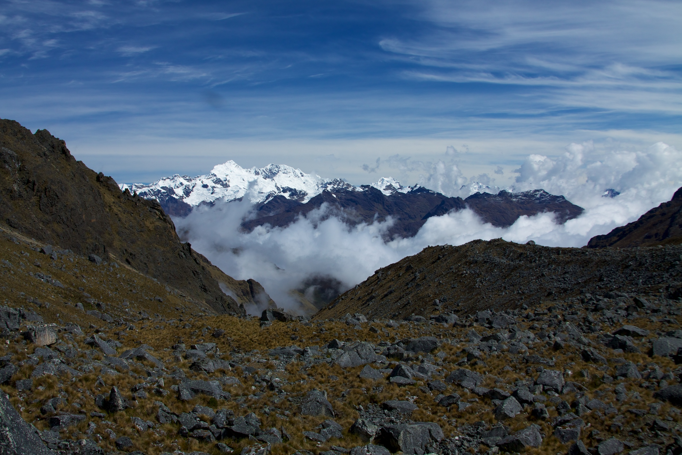 Mountains and mist-filled valleys invite down the other side of the pass. I think this is the 6000m Nevado Sacsarayoc massif looming over the deep valleys.